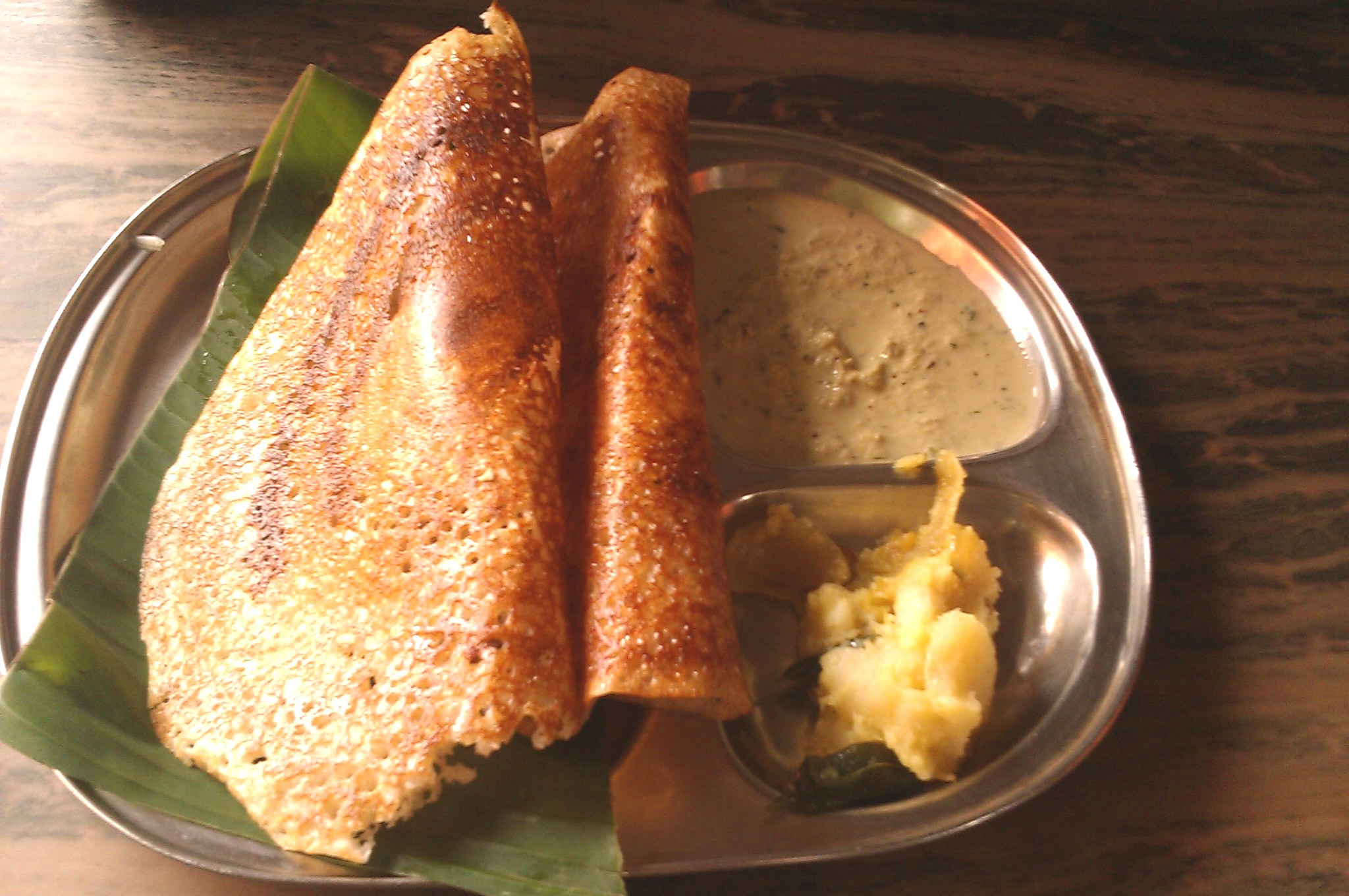 Pic of the famous Davanagere Butter Dose/Dose.